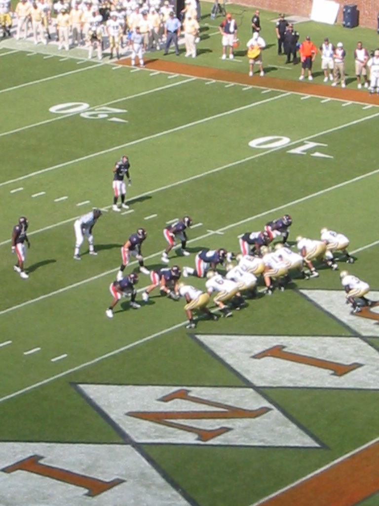 The Georgia Tech Yellow Jackets line up against the Virginia Cavaliers in this 2007 matchup at Scott Stadium.GT coming out of the end zone